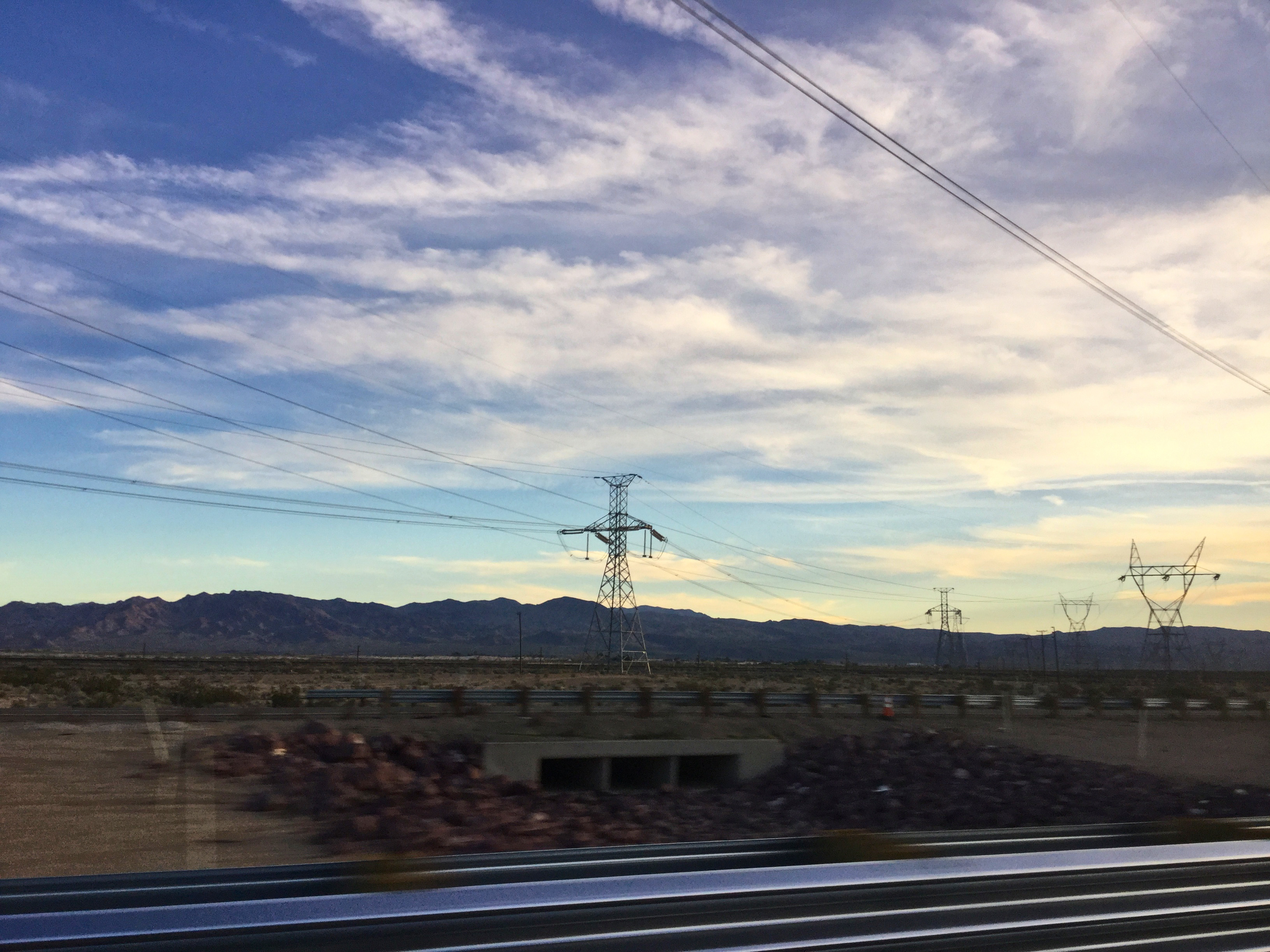 Powerlines of HVDC Path 27 (to the left) with some of the Path 46 lines visible, along Interstate 15 in California